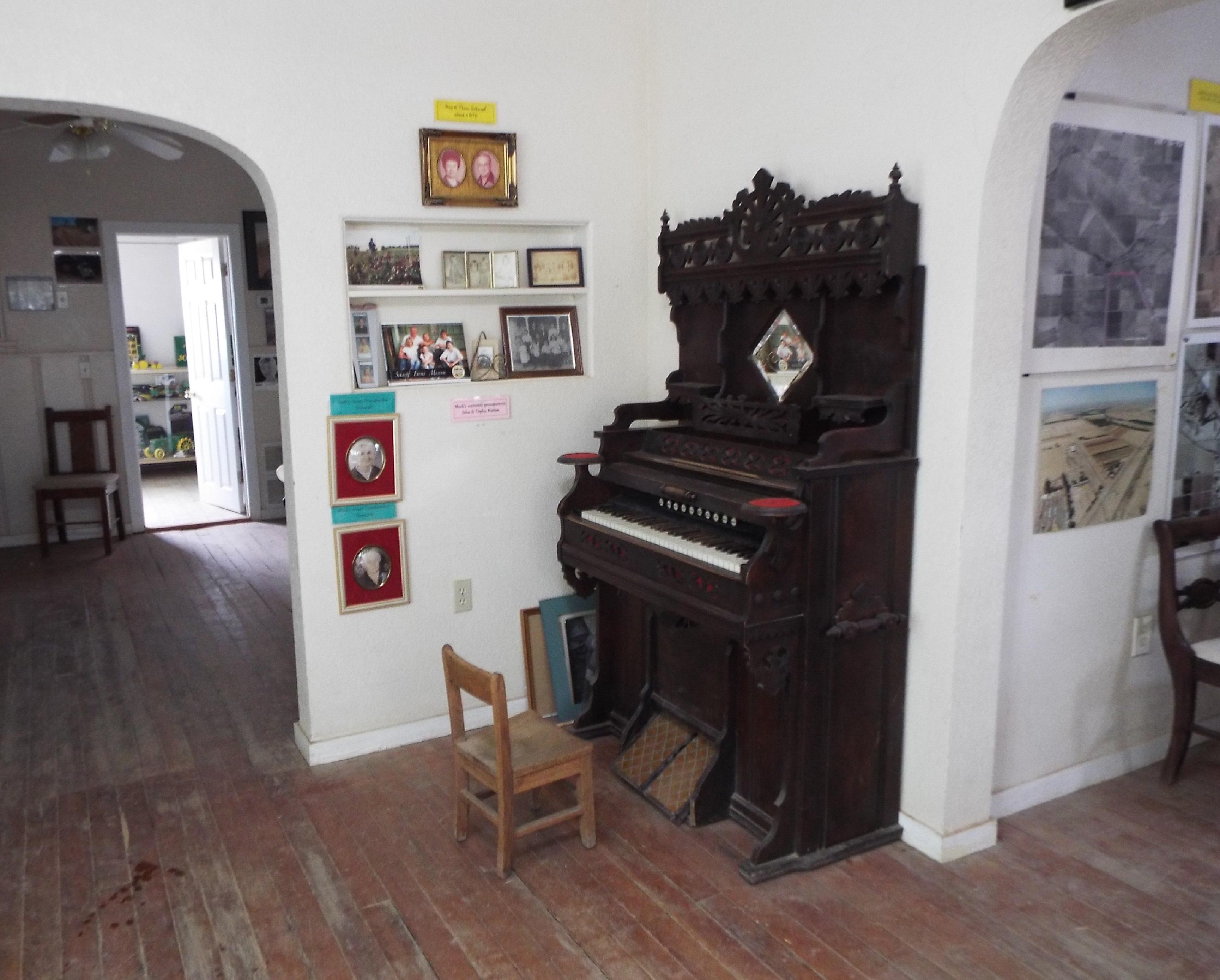 Century old house which served as the home of Ray and Thora Schnepf. The house is located in the grounds of the Schnepf Farm at 22601 East Cloud Road in Queen Creek, Arizona.